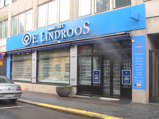 Timanttiset jewelry store at the centre of Pori, Finland. Timanttiset is the largest jewelry store chain in Finland.